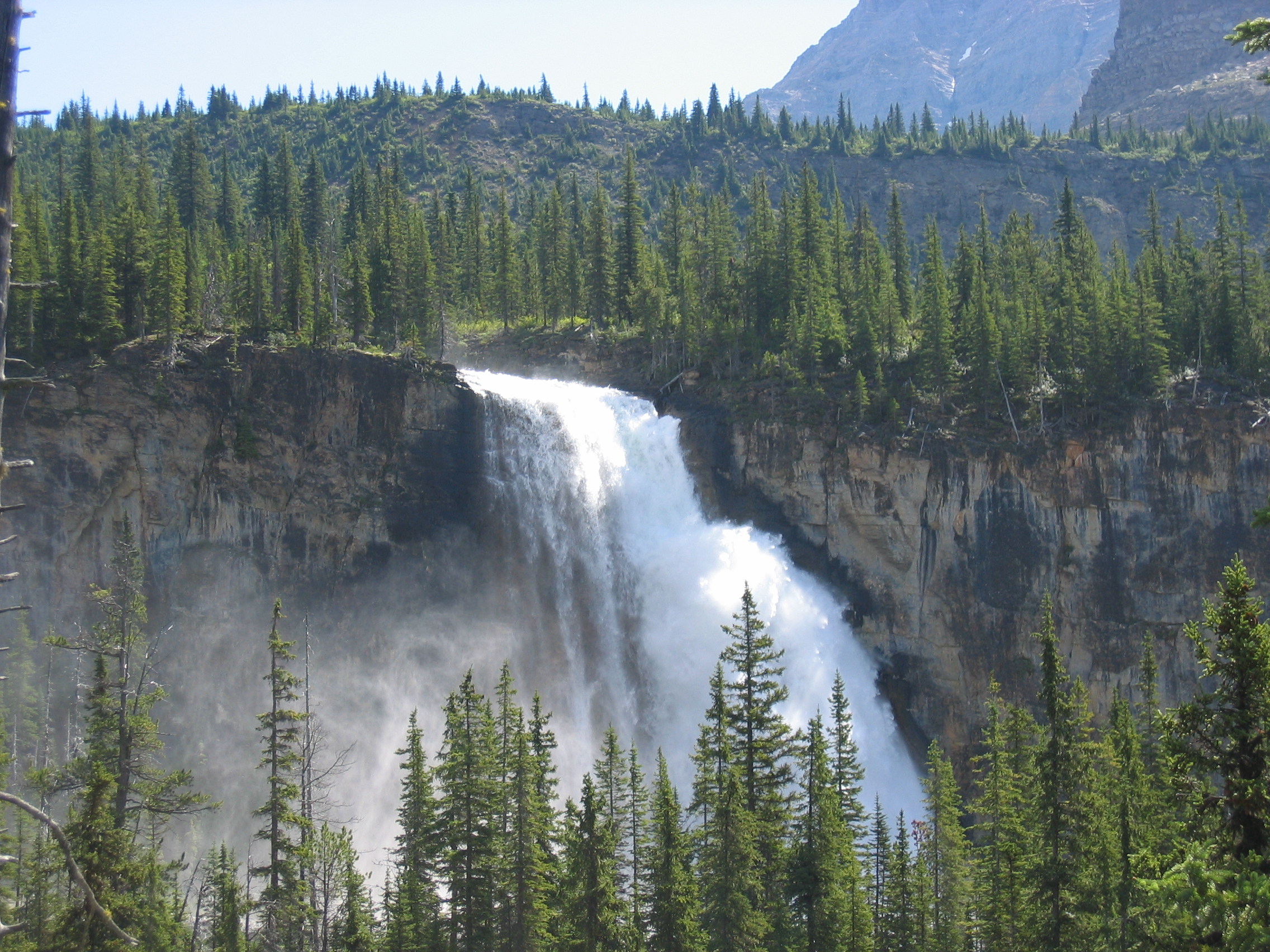 Emperor Falls, British Columbia